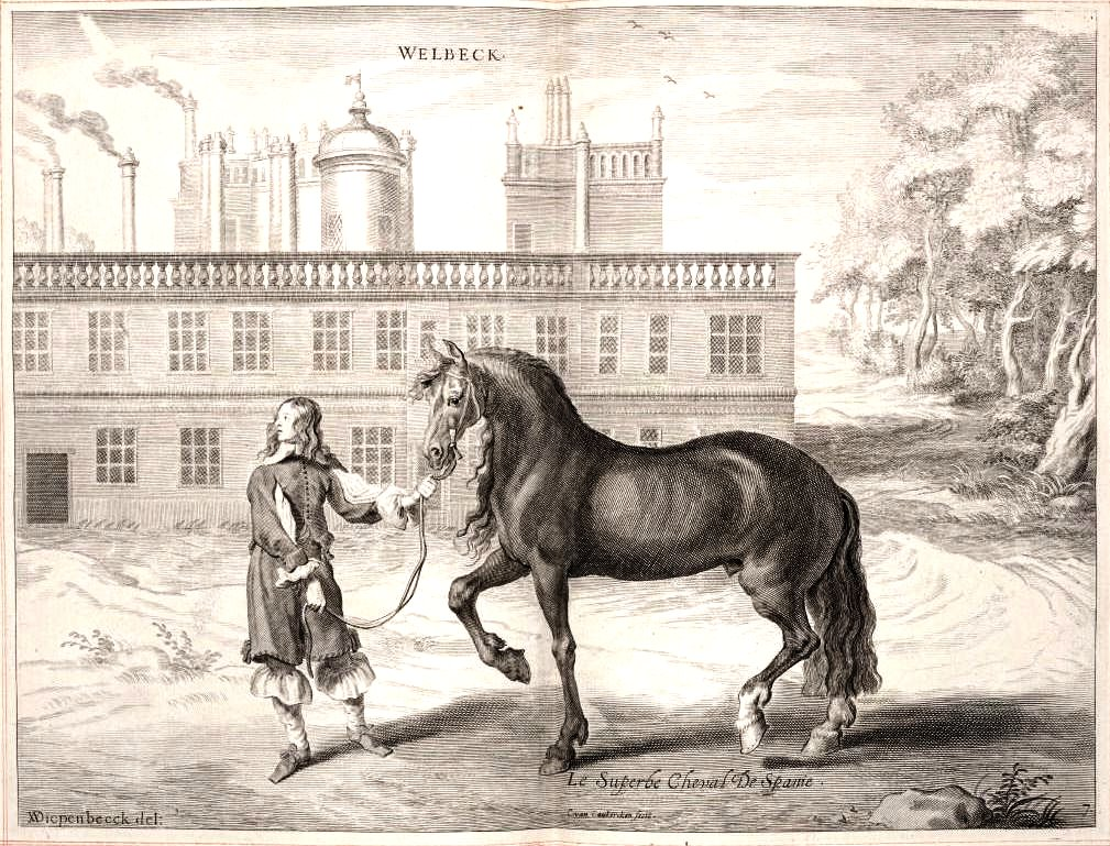 Welbeck Le Superbe Cheval de Spanie, engraving (reprinted 1743) by Cornelis van Caukercken, after Abraham van Diepenbeeck, from the first Duke of Newcastle's A general system of horsemanship in all its branches (new edition printed for J. Brindley, bookseller to His Royal Highness the Prince of Wales, in New Bond-street, 1743)